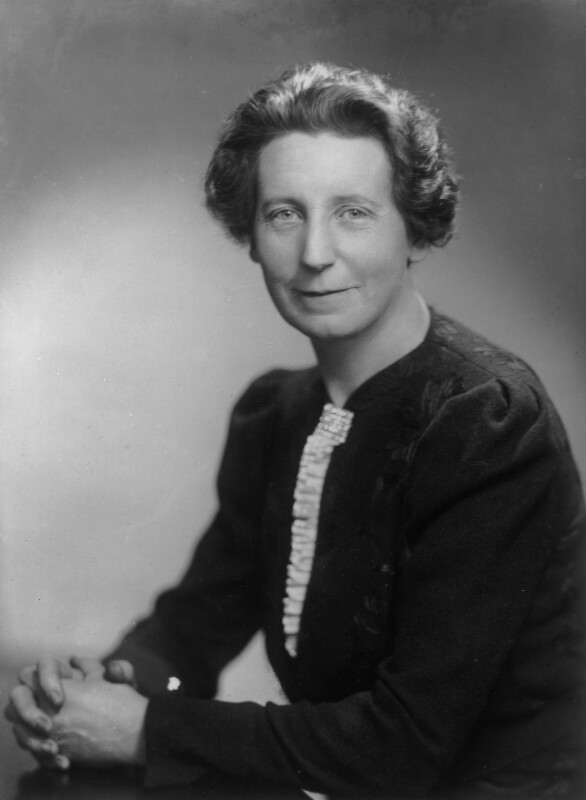 Photographic portrait of Florence Horsbrugh